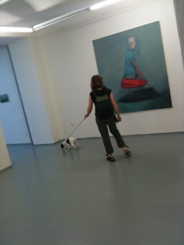 Gallery Ars, from series Liquid paintings 2010